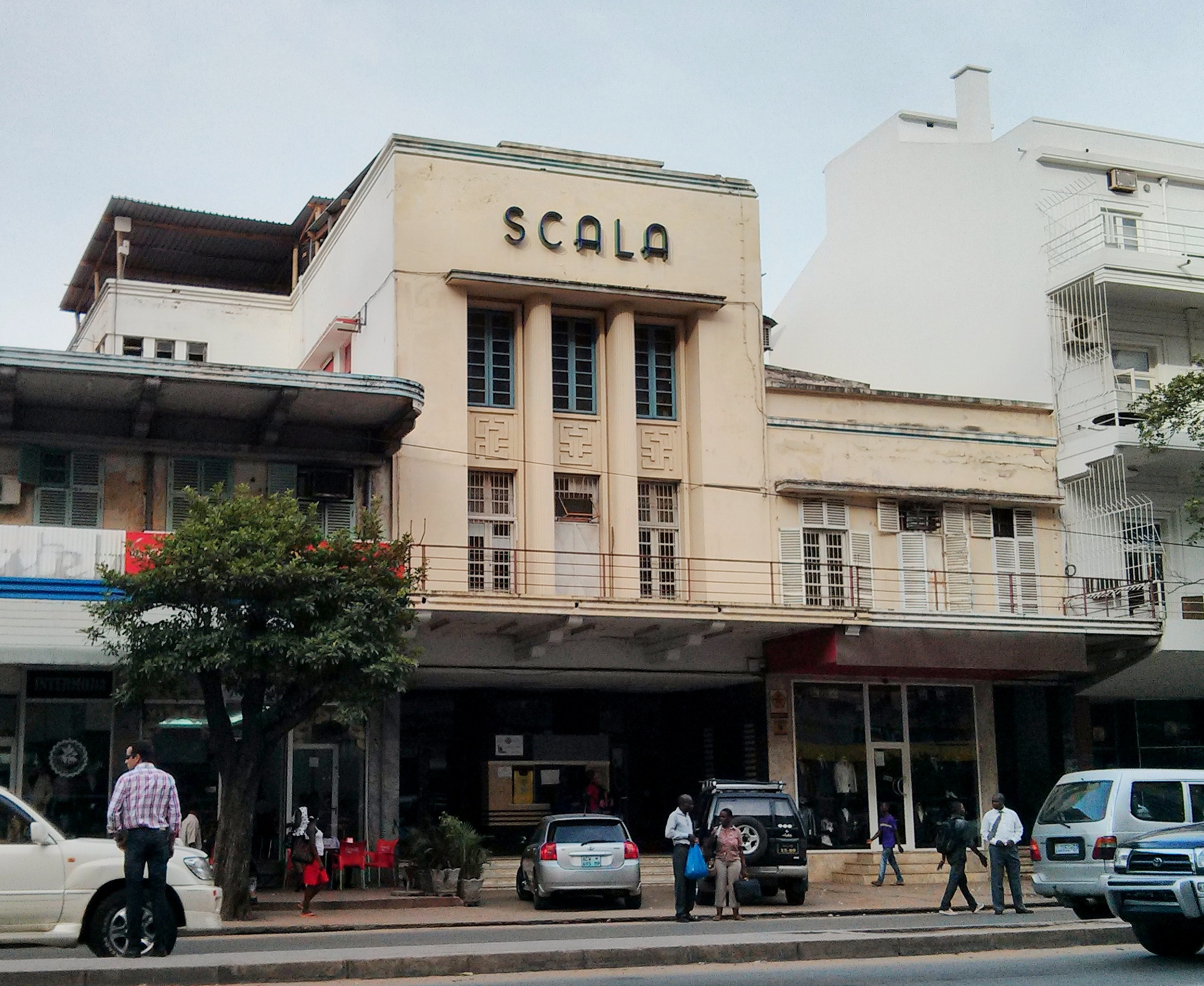 The Scala Cinema in Av. 25 de Setembro, Maputo, Mozambique